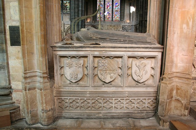 Prior Wymbish of Nocton Priory, Lincolnshire, died in 1478, his tomb has a prominent position in the Angel Choir. The wills of Nicholas and Robert Wymbush show them to be connected to the prominent gentry Wymbush/Wymbish family of Nocton Lincolnshire (A Brotherhood of Canons Serving God: English Secular Cathedrals in the Later ...By David Lepine, p.50, note 24[1]). Thomas Wymbish was Sheriff of Lincolnshire and Mayor of Lincoln. He was a wealthy man, as by his will he left Nocton to his oldest son, Blankney to his second son, and Metheringham to his third son. Thomas Wymbish was succeeded by his great grandson, young Thomas Wymbish at the age of nine years, in 1530. While still under age he married Elizabeth Lady Tailboys of Kyme, a baroness in her own right, and a great heiress. On Thursday October 13th 1541, these young people were honoured by a visit from King Henry VIII and his fifth Queen, Katherine Howard who stayed the night at Nocton. Young Thomas had a short life and a merry one and died without issue in 1552. ( Peck (Peck's Desiderata Curiosa, book viii. page 295, ed. 1779.) wrote as follows: “A stately tomb, under which the portraiture of a man, at full length, in a religious habit; his head shaven, and under it an helmet, and thereout issuing a Saracen's head, with a red hat, sharp upward, and the band hanging down behind. It is the Prior of Nocton (Wymbish), once a benefactor to this place.” The head of this statue is now gone. It appears from Vincent's Baronage, p. 166, in the College of Arms, that the Wymbishes first became possessed of Nocton, by the marriage of William Wymbish to Agnes, one of the co-heirs of the Barony of D'Arcy, of Nocton, who was living the 30th Henry VI. (The History and Antiquities of the Cathedral Church of Lincoln: Illustrated ... By Charles Wild, p.40[2])